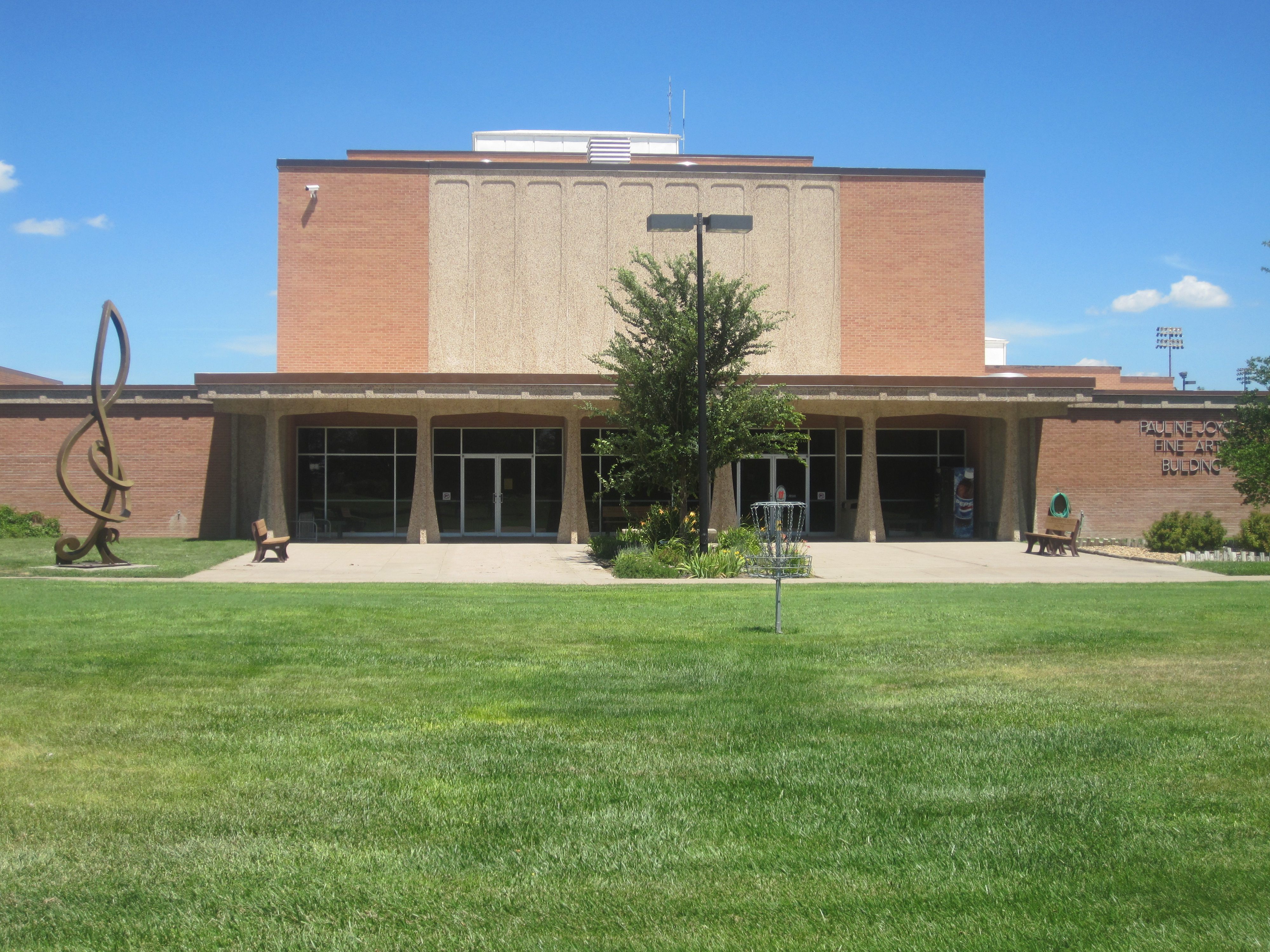 I took photo with Canon camera in Garden City, KS.